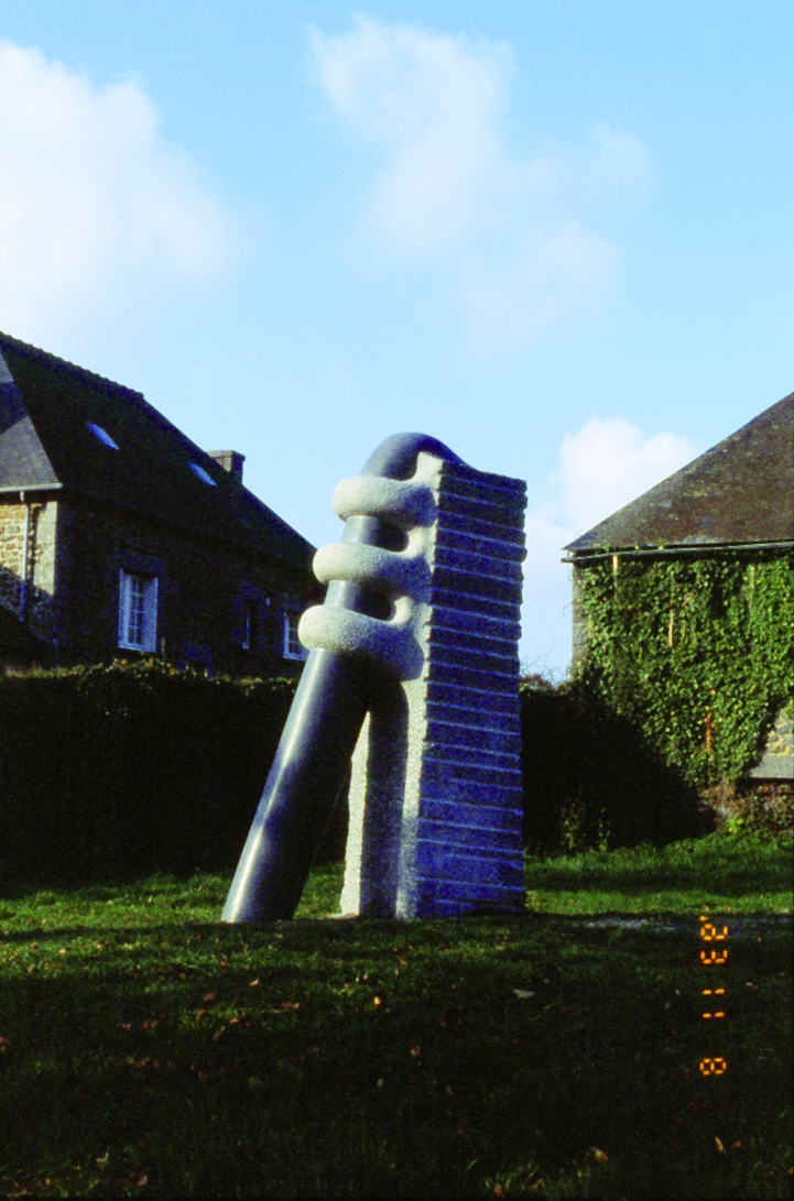 EARTH WEAVING by the sculptor Tetsuo HARADA is in blue granite, height 3,70m Organization and participation in the first “International Sculpture Symposium on Brittany Granite“ in Lanhélin, the historical quarrying place of blue granite in Brittany, France. Invited sculptors Liebard Yann, Prentice Mickael. My sculptures are created not only as beautiful objects in themselves. My motivation is to transmit the message of Peace, Union and Love. "Le Tricot de la Terre", "Earth weaving " is a group of sculptures which covers the world. "Earth weaving" creates links which traverse the planet, which will nourish and unite it. The "stitching together" symbolizes a desire for a dialogue of Peace, Union and Love in order to reunite Men, the Public and the Continents.The more that I travel, the more I wish to serve the Earth, to protect the Earth and to give emphasis to the fundamental values of man.